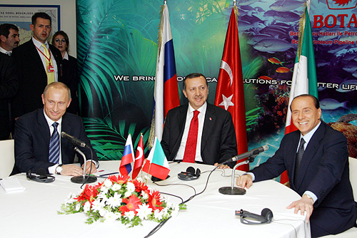 Russian president Vladimir Putin and Turkish Prime Minister Recep Tayyip Erdoğan and Italian Prime Minister Silvio Berlusconi at the opening of the Blue Stream Gas Pipeline